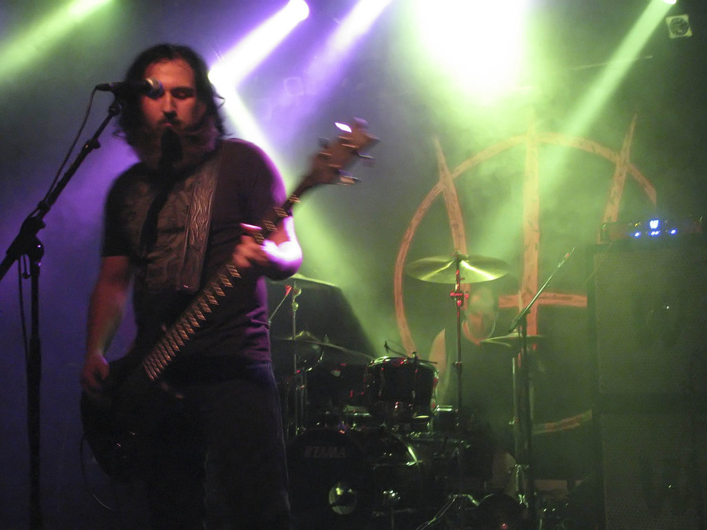 Prong members Mike Kirkland (bass) and Aaron Rossi (drums) performing live.